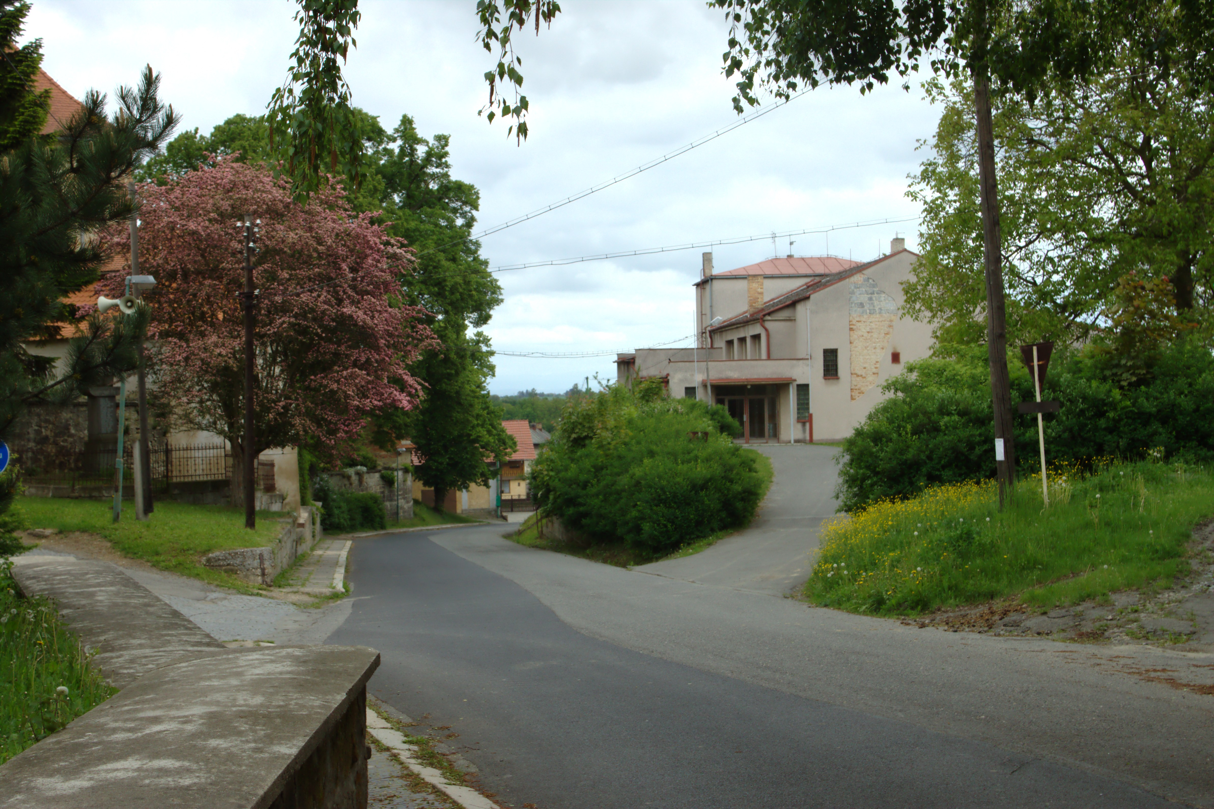 Town of Skalsko, Central Bohemian Region, CZ